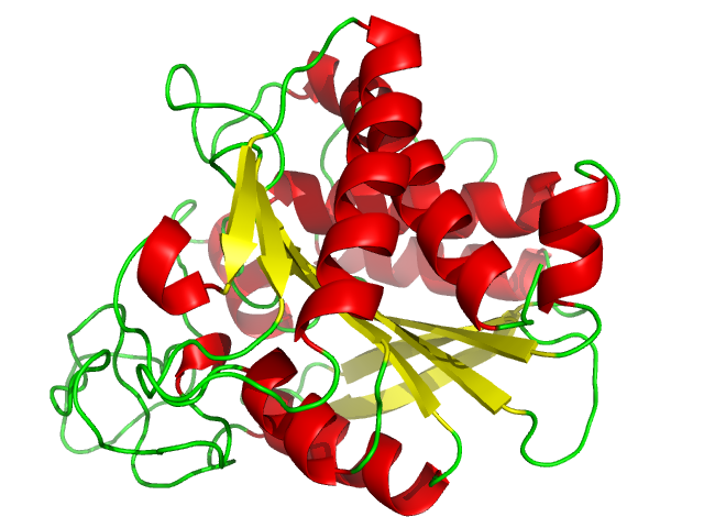 This is a structure of Carboxypeptidase A, from bovine pancreas).